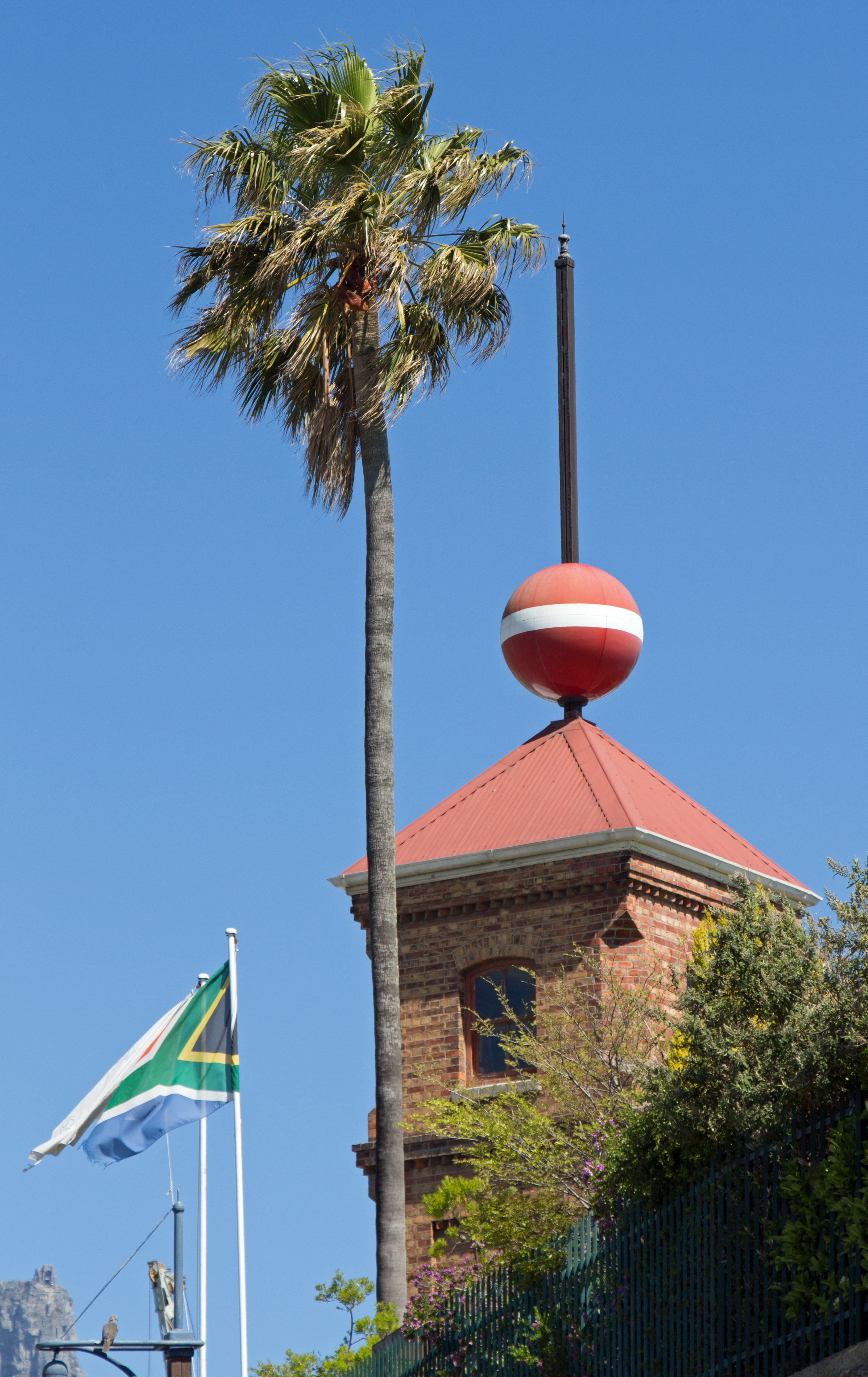 Time ball tower, Portswood Ridge, Victoria & Alfred Waterfront, Cape Town, South Africa This media shows a South African Protected Site with SAHRA file reference 9/2/018/0034/002/18.